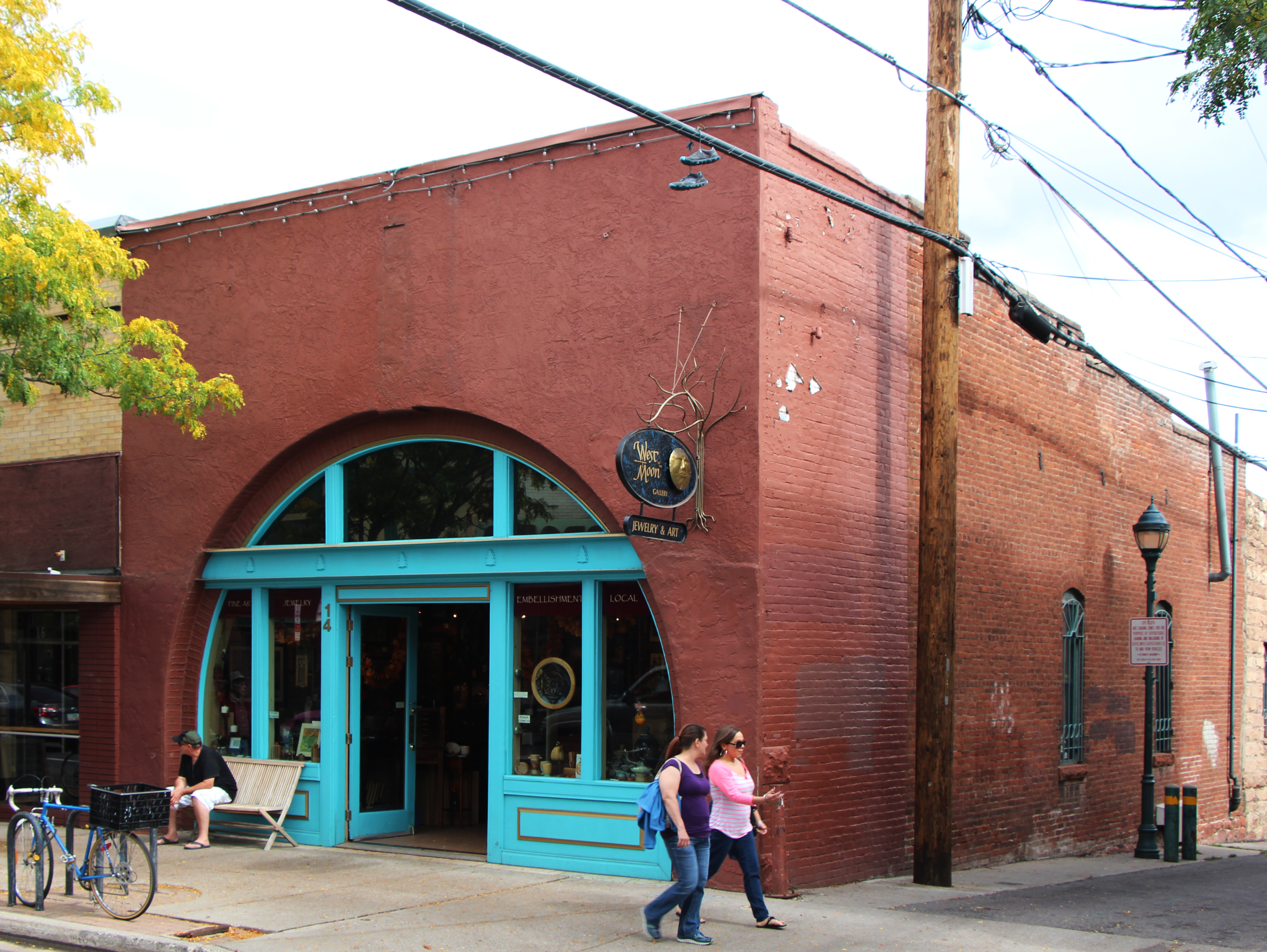 Hawks Building, 14 N San Francisco St, Flagstaff, AZ